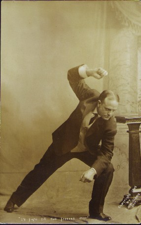 I'll fight till Hell freezes over